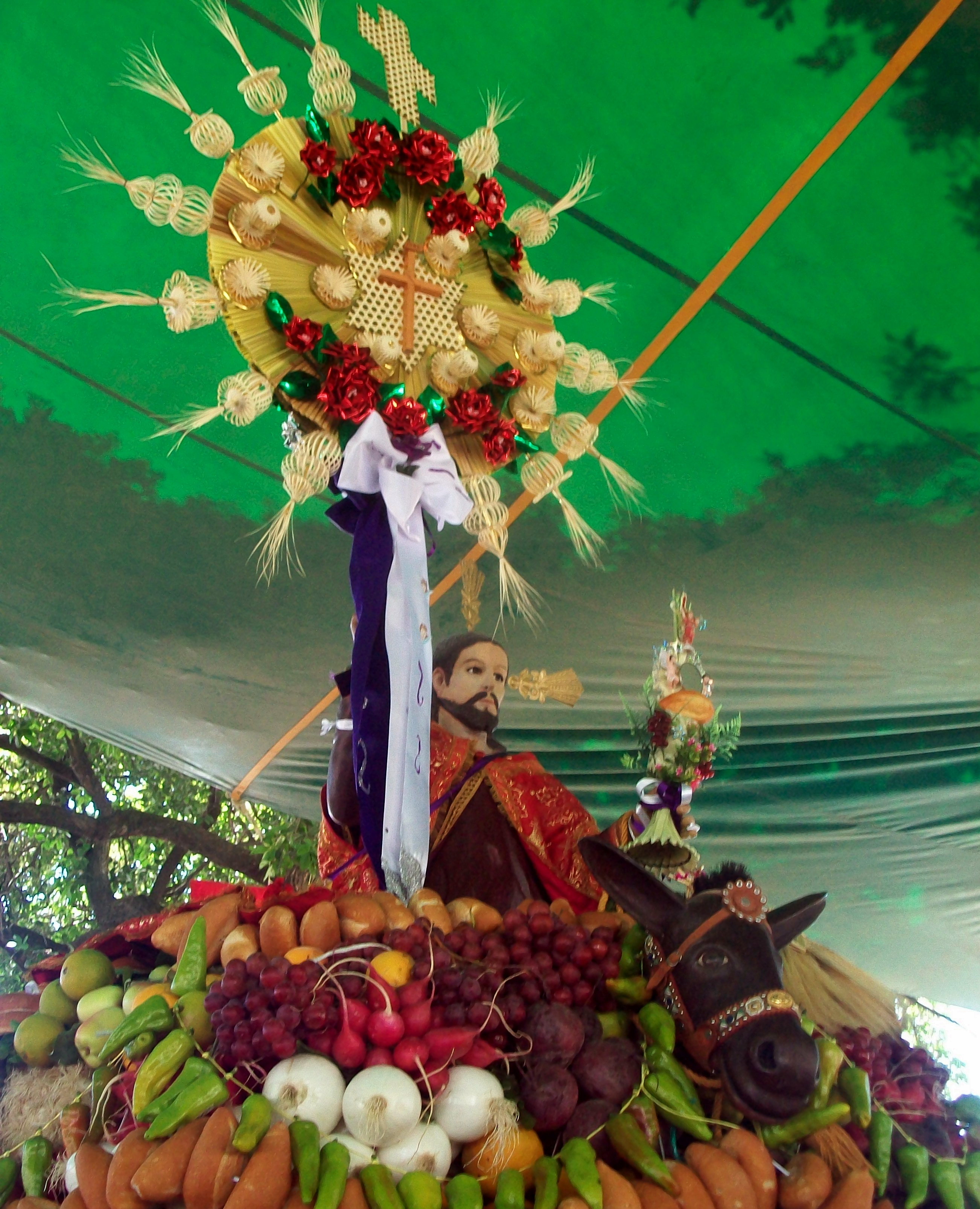 Domingo de Ramos.